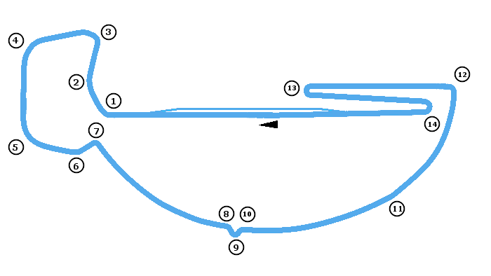 Parque O'Higgins Circuit - Santiago,CL Formula E 2018-19